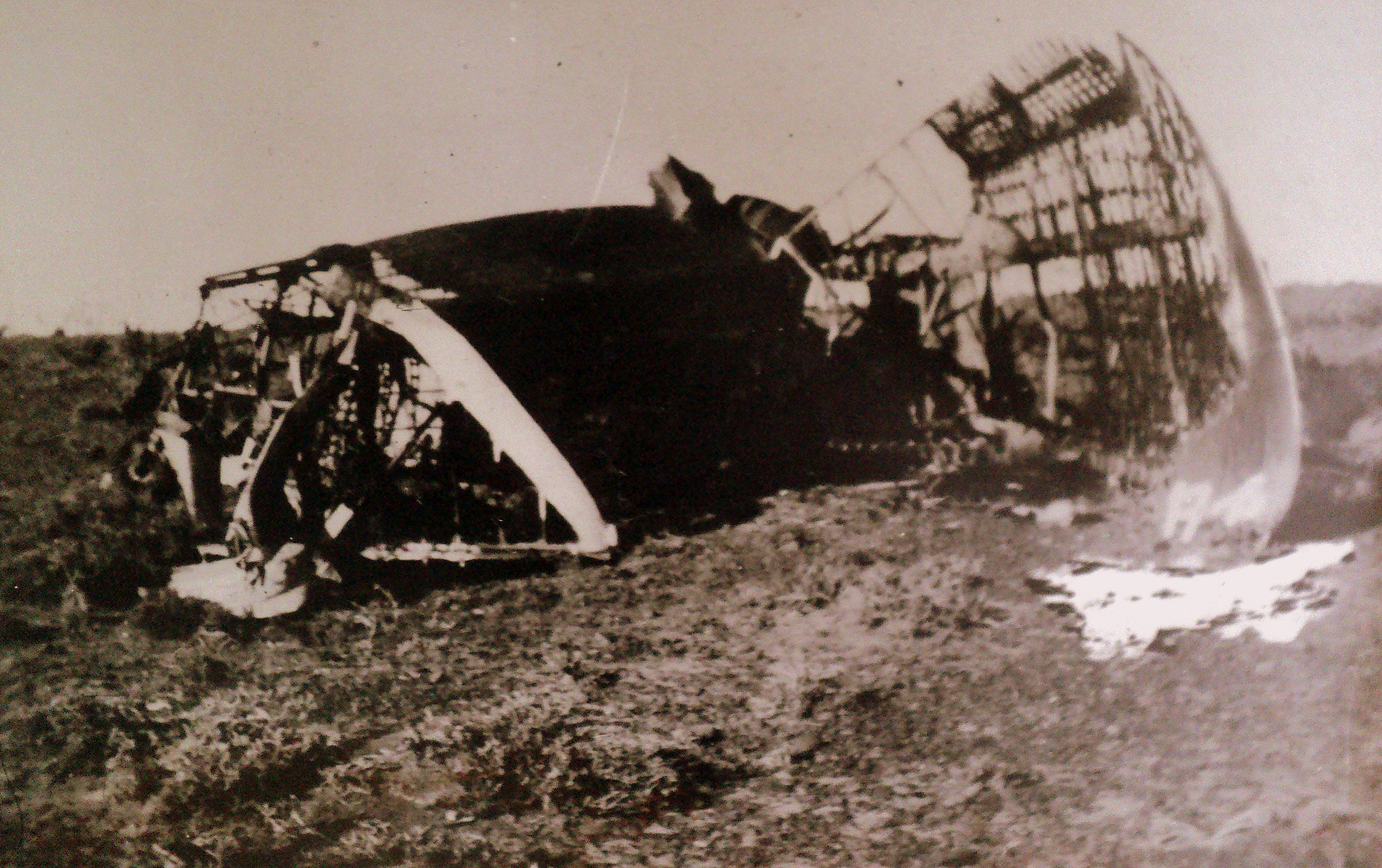 Debris from the plane flown by Argentine flyier Próspero Palazzo, after the accident that killed him in 1936.